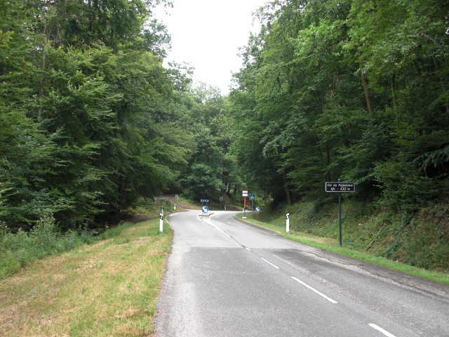 Col du Pigeonnier: Pass summit